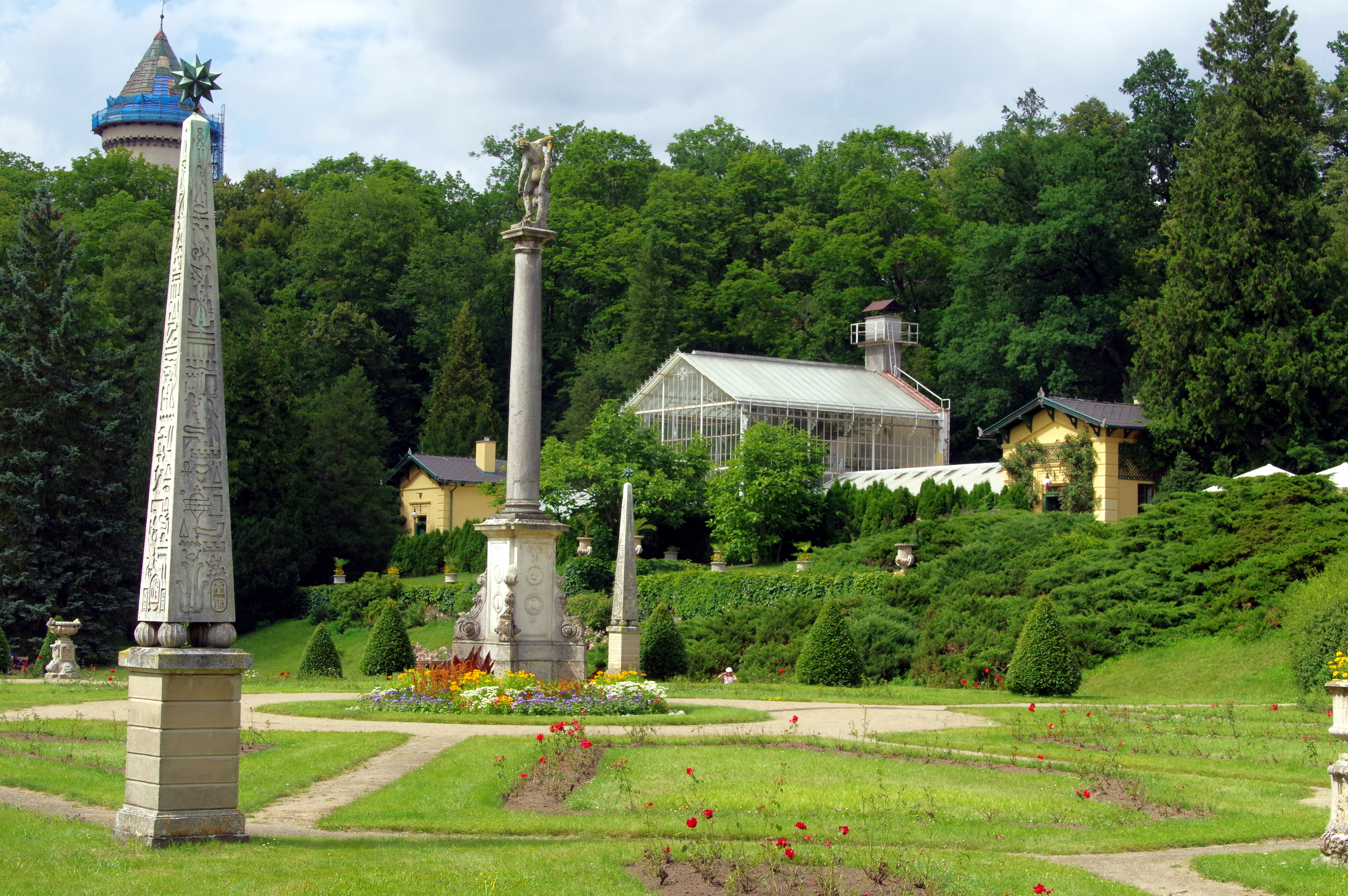 19.7.16 Konopiste and Benesov